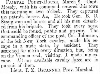 This is a small Alexandria newspaper article about Mosby's March 1863 raid in Fairfax Courthouse during the American Civil War.